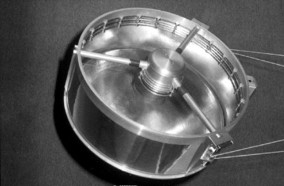 Photo of the Dust Detector Subsystem (DDS) instrument that was incorporated into the Galileo spacecraft.